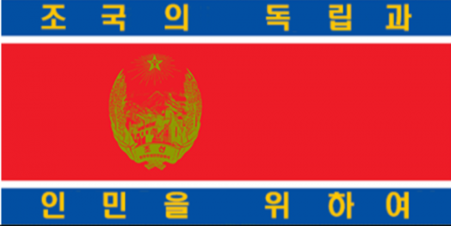 Flag of the Korean People's Army (1948-1981)